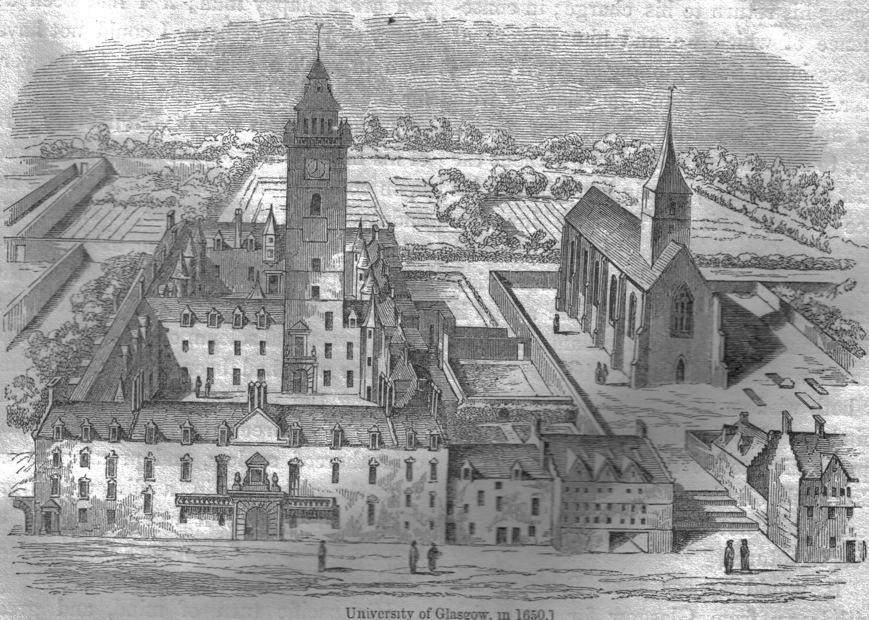 Glasgow University in 1654